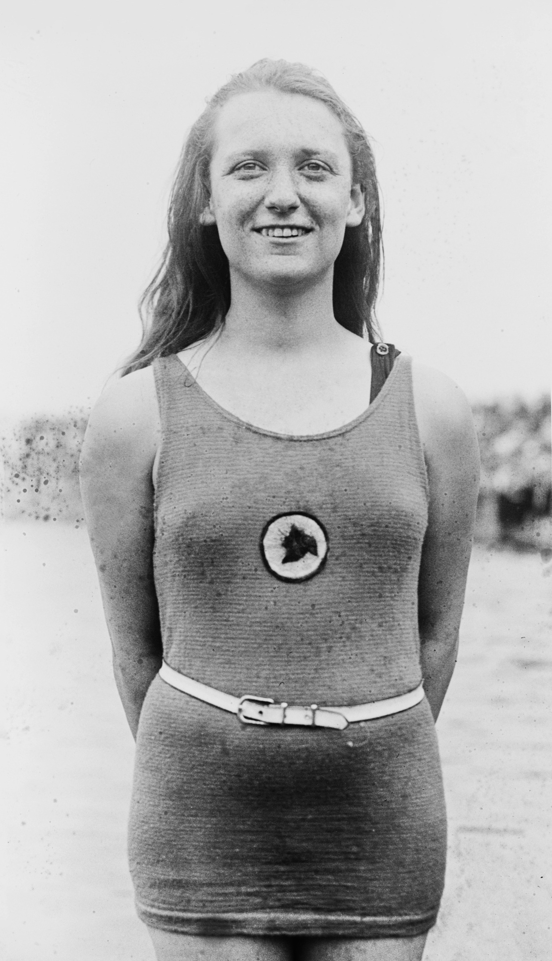 American swimmer Irene Guest (1900–1979), gold medallist at 1920 Summer Olympics